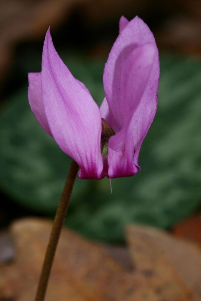 Cyclamen purpurascens in Sopron Mountains, Hungary